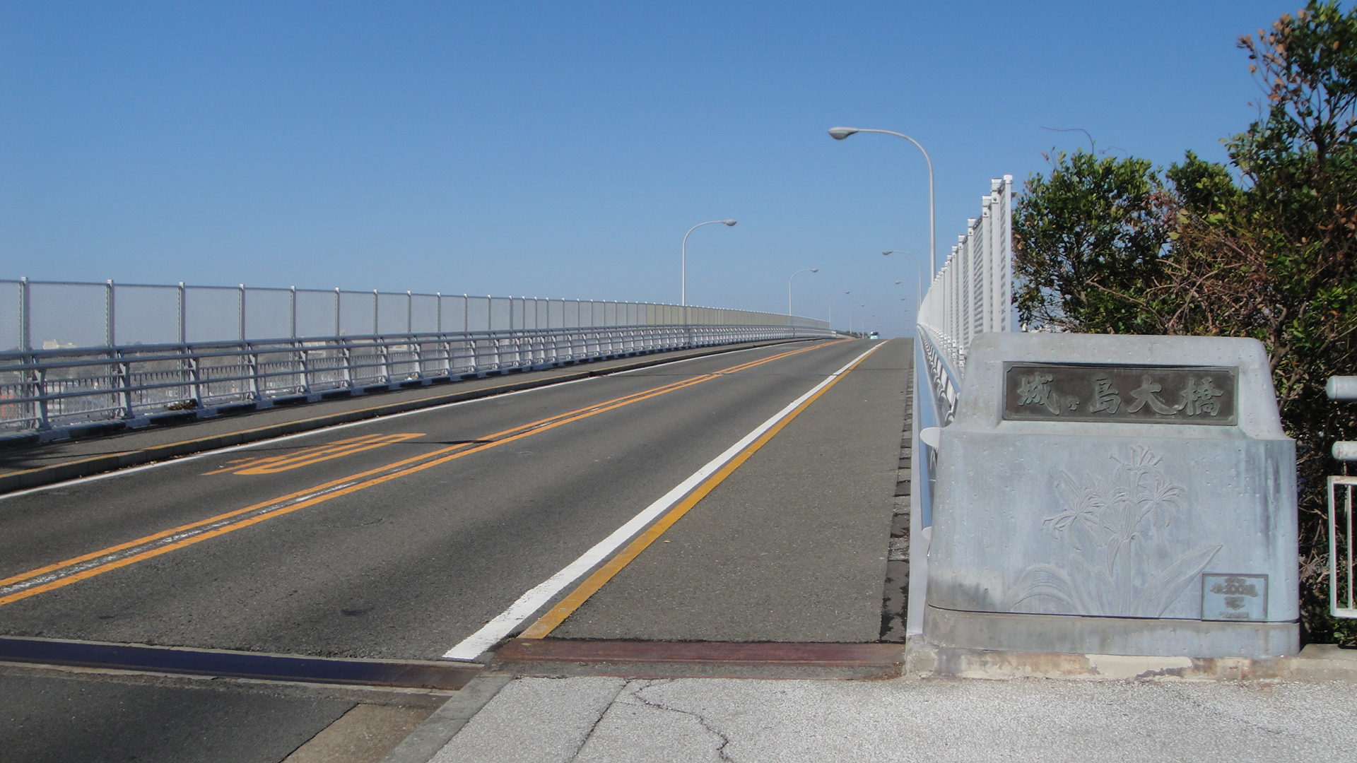 Jōgashima ōhashi bridge in Jōgashima, Kanagawa.